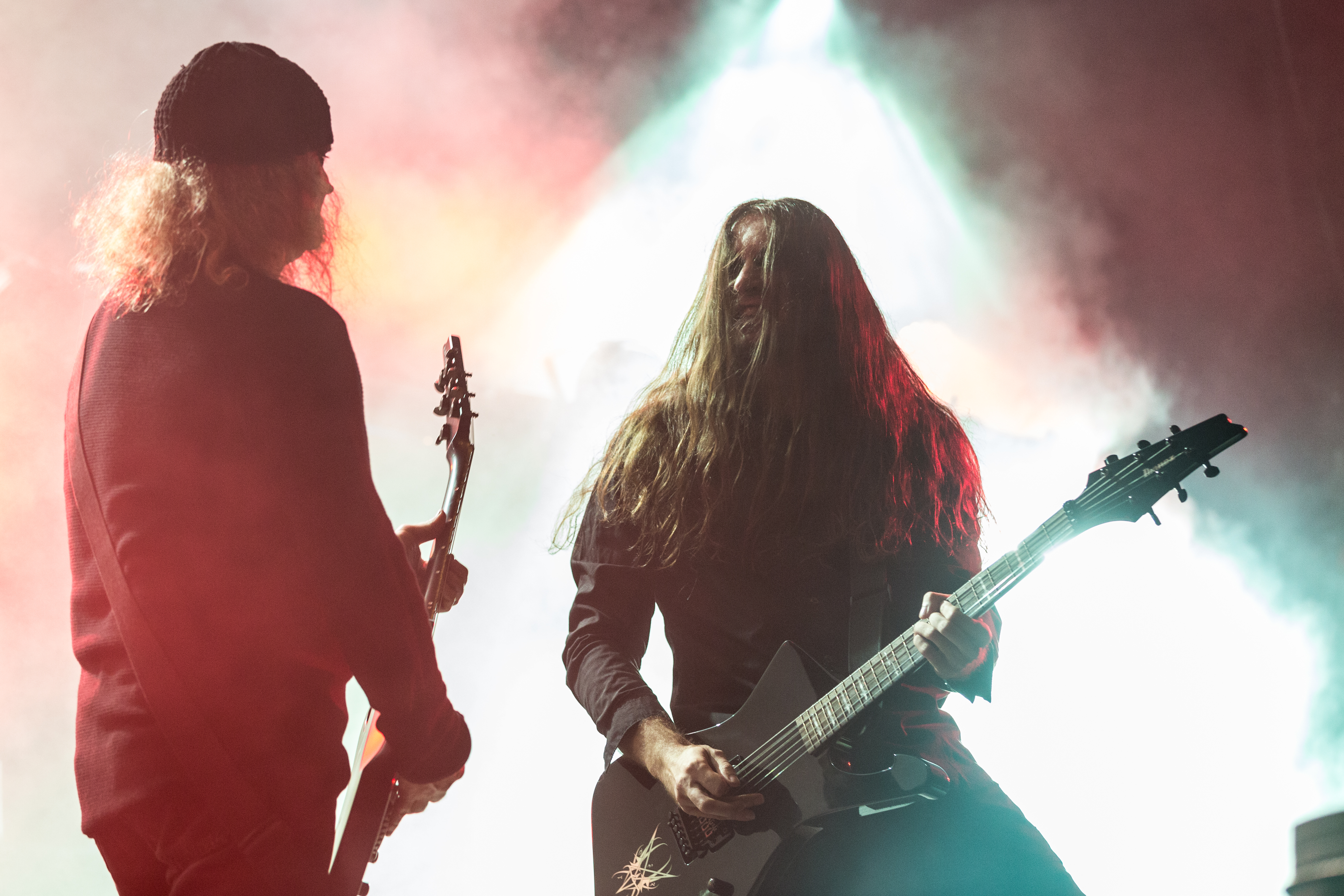 The Swiss gothic/doom/death/black Metal metal band Triptykon at the Party.San Metal Open Air 2017 in Obermehler-Schlotheim/Germany.